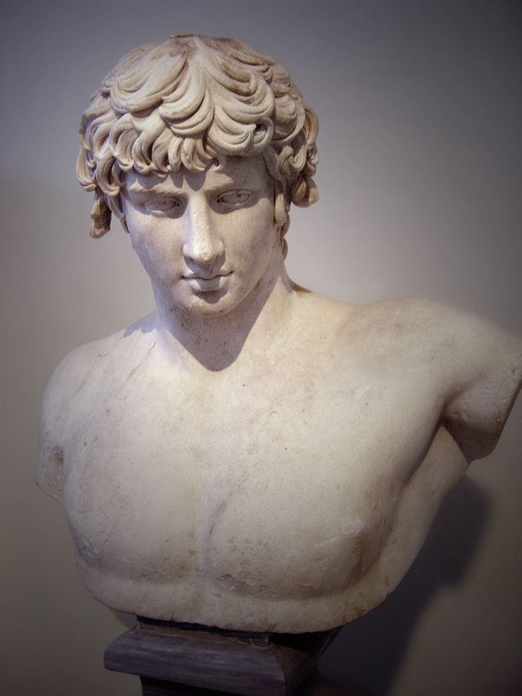 Ancient Roman bust of Antinous. Hadrian age ((AD 117-138),National Archaeological Museum in Athens, Room 32.